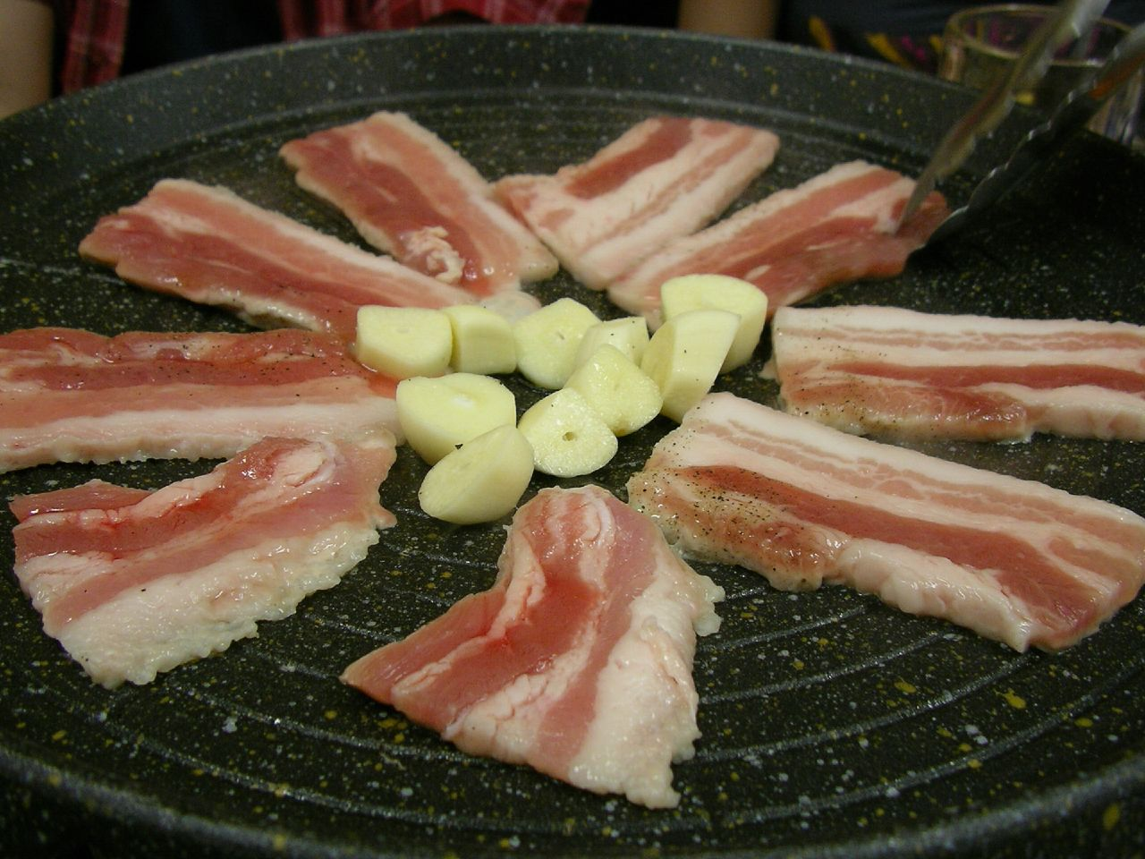 Samgyeopsal, Korean pork barbeque.